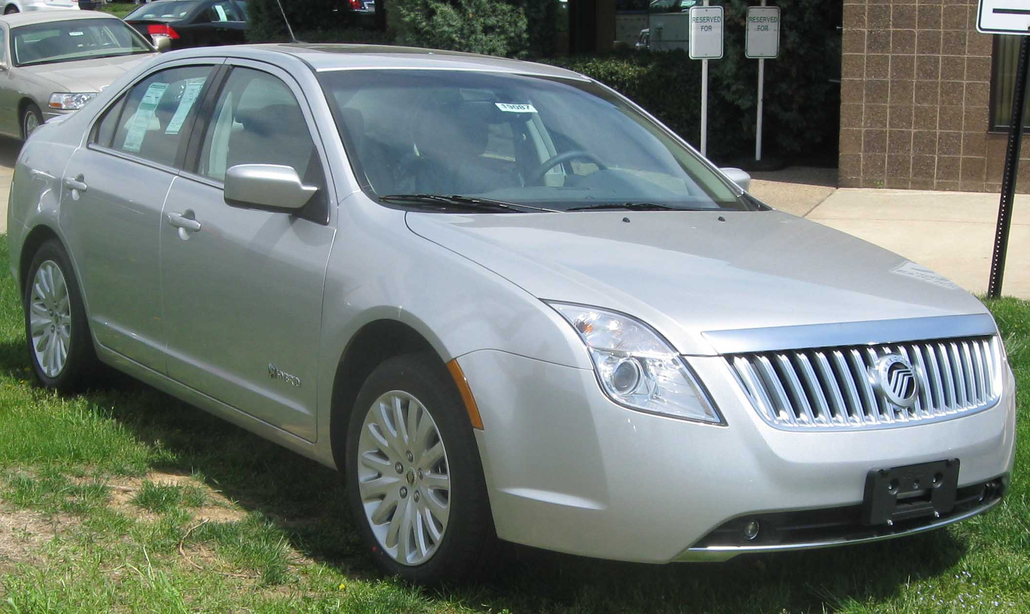 2010 Mercury Milan Hybrid photographed in Silver Spring, Maryland, USA.